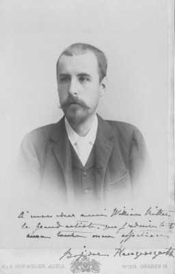 Prince Bojidar Karageorgevitch (1862-1908)